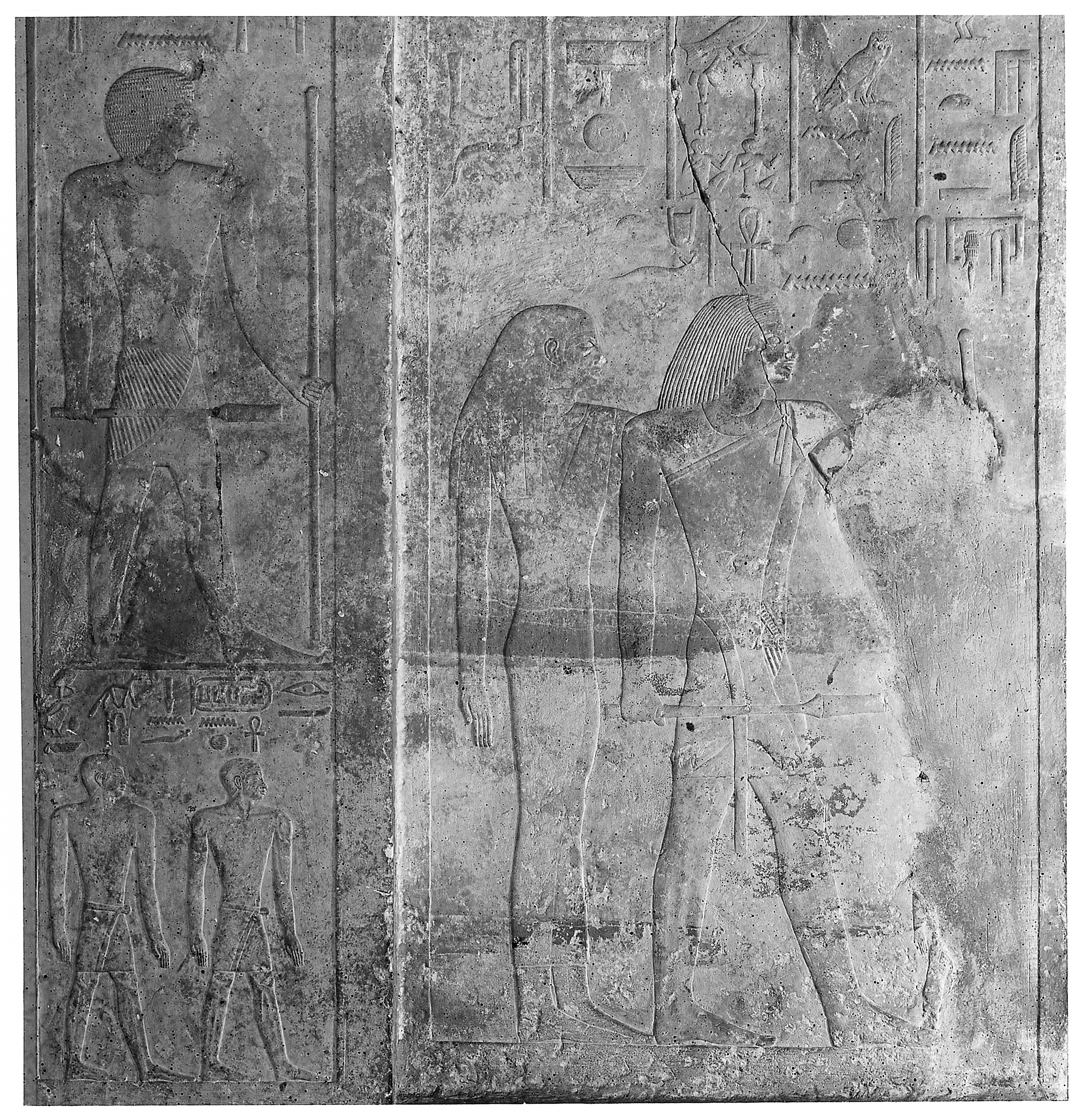 The false door of the tomb of Ni-Ankh-Skhmet, physician of King Sahura. Left had corner of above showing Ni-Ankh-Skhmet and his wife. In the Cairo Museum. Wellcome Images Keywords: egyptology